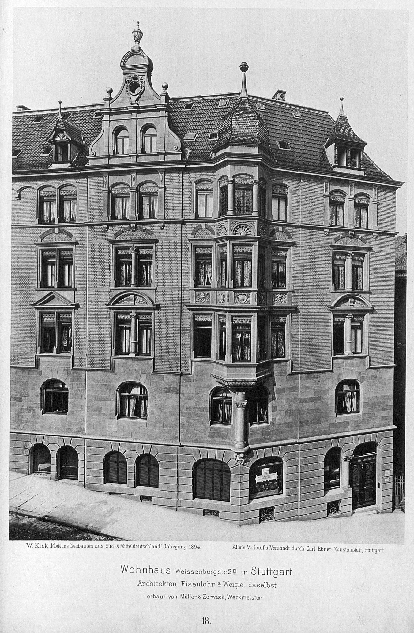 Wohnhaus Weissenburgstr. 2 B in Stuttgart, Architekten Eisenlohr & Weigle aus Stuttgart, Tafel 18, Kick Jahrgang I